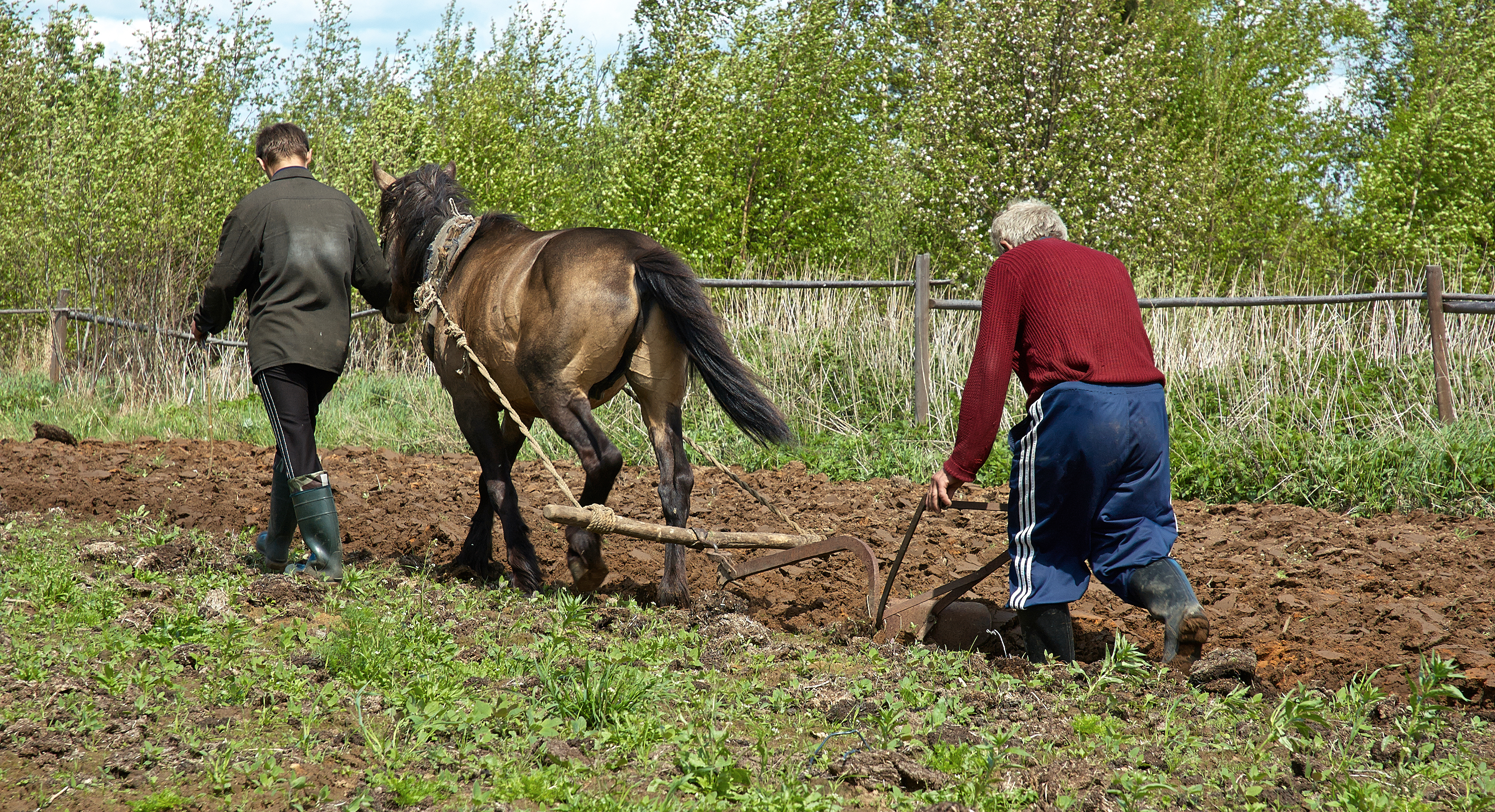 Plowing with horses in the Russia. 2006 year.